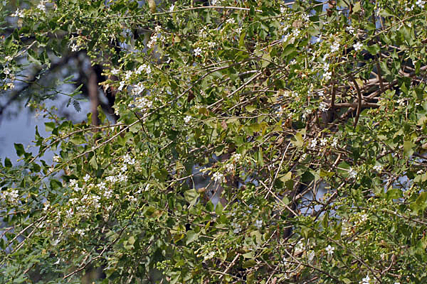 Arni Clerodendrum phlomidis at Sindhrot in Vadodara District of Gujarat, India.